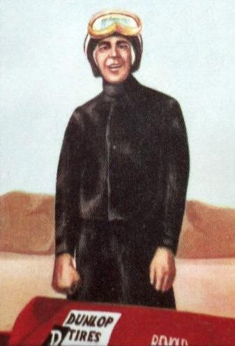 William A. 'Bill' Johnson, USA, Motorcycle land-speed record, 1962-09-09, Bonneville Salt Flats, Dudek Triumph Streamliner (361.410 kmh - 224.57 mph), 'Campioni dello Sport 1969 - 1970', Panini figurina n°432.